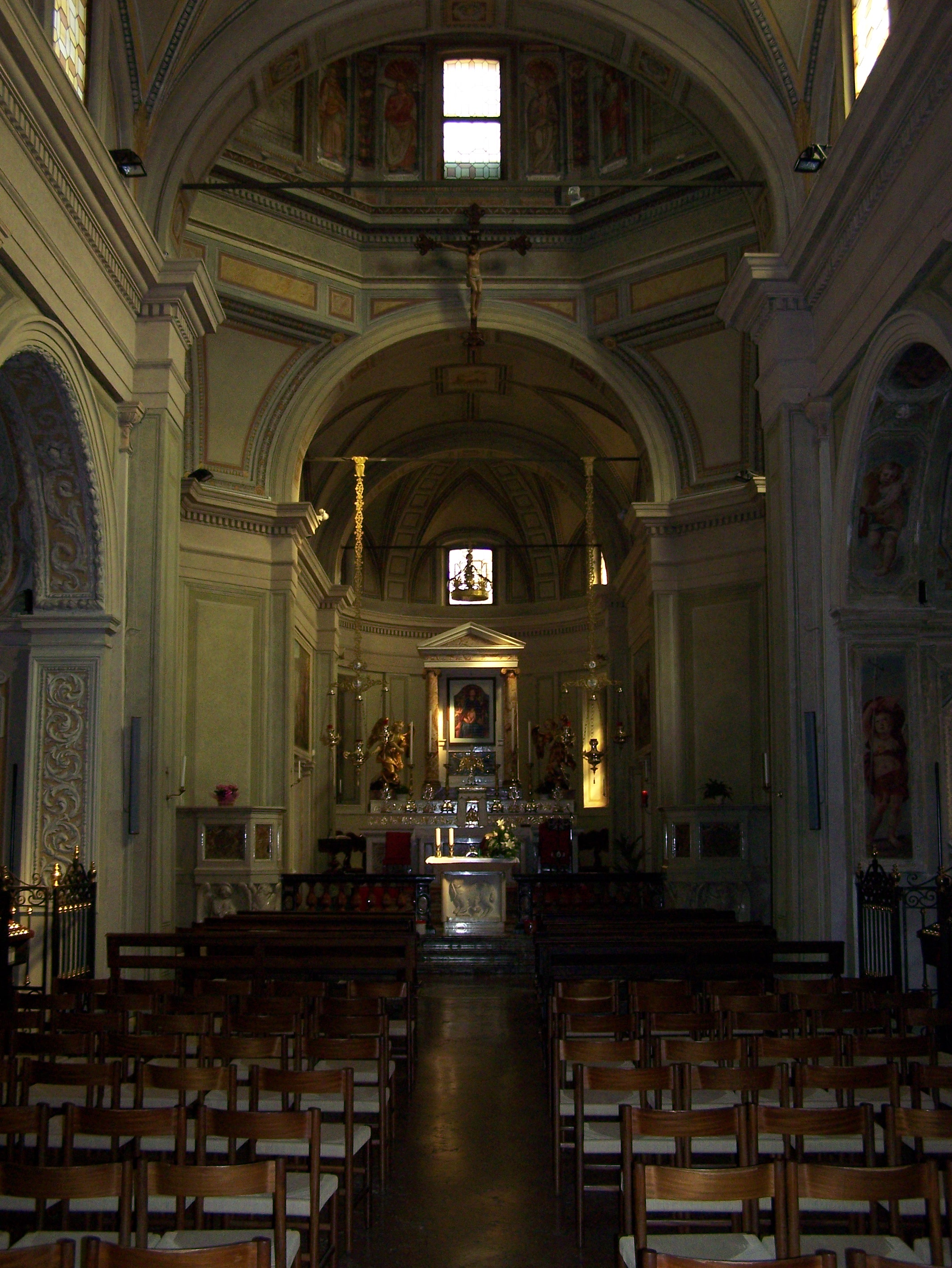 Sanctuary, inside - Corbetta (MI) - Italy